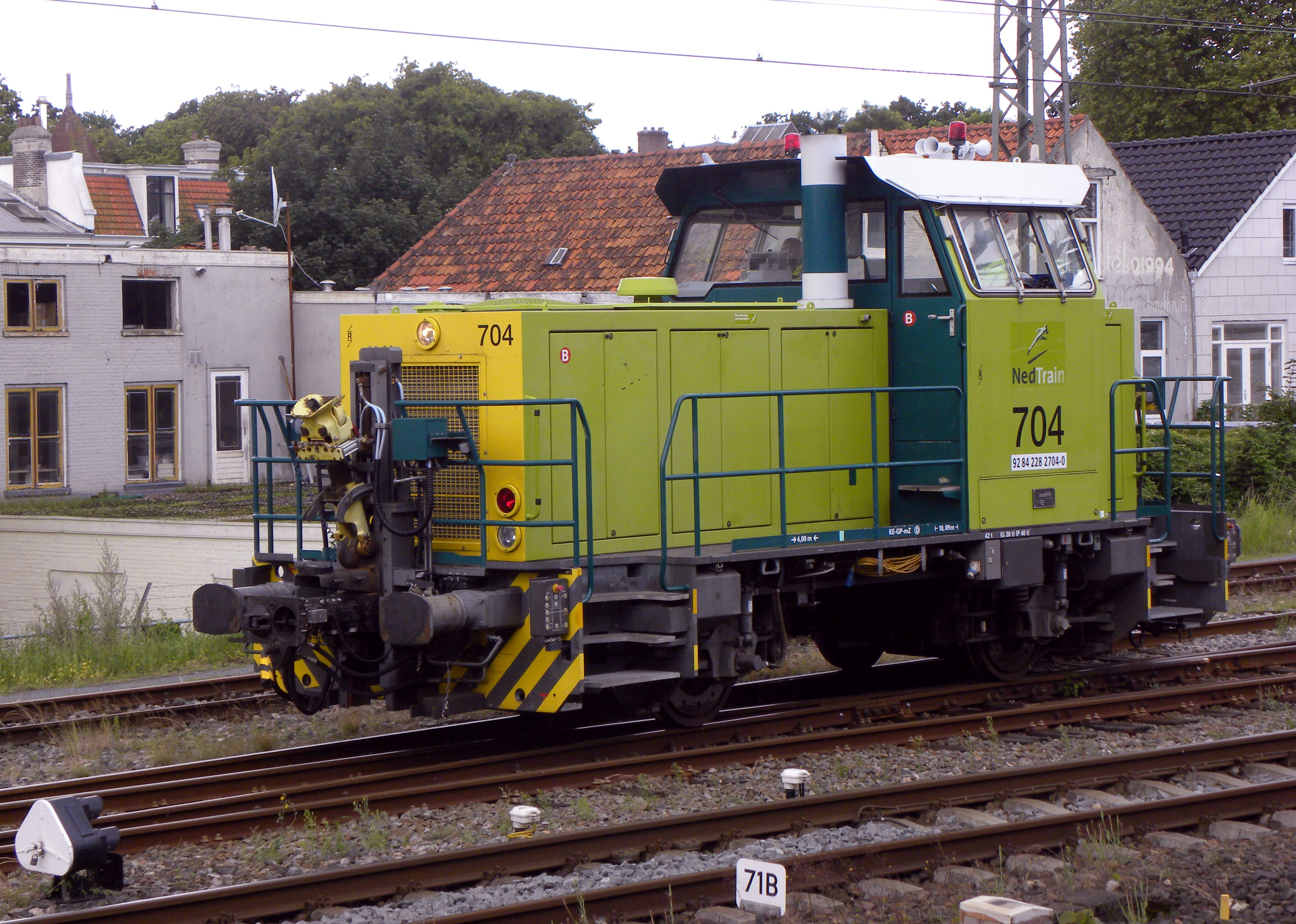 NedTrain 704 MaK 400 B